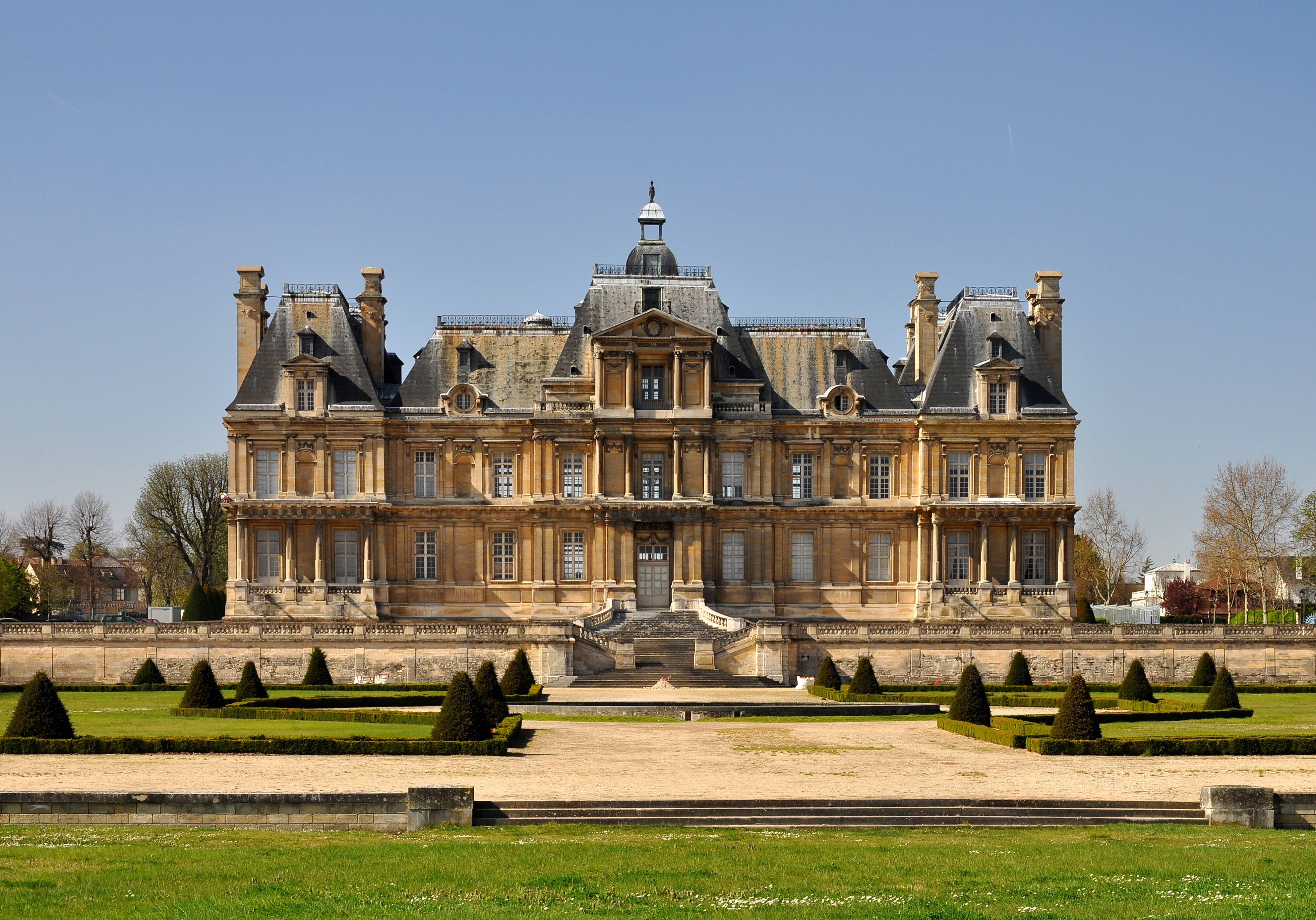 Château de Maisons-Laffitte in the department of Yvelines, France. The castle is classified as historic Monument.